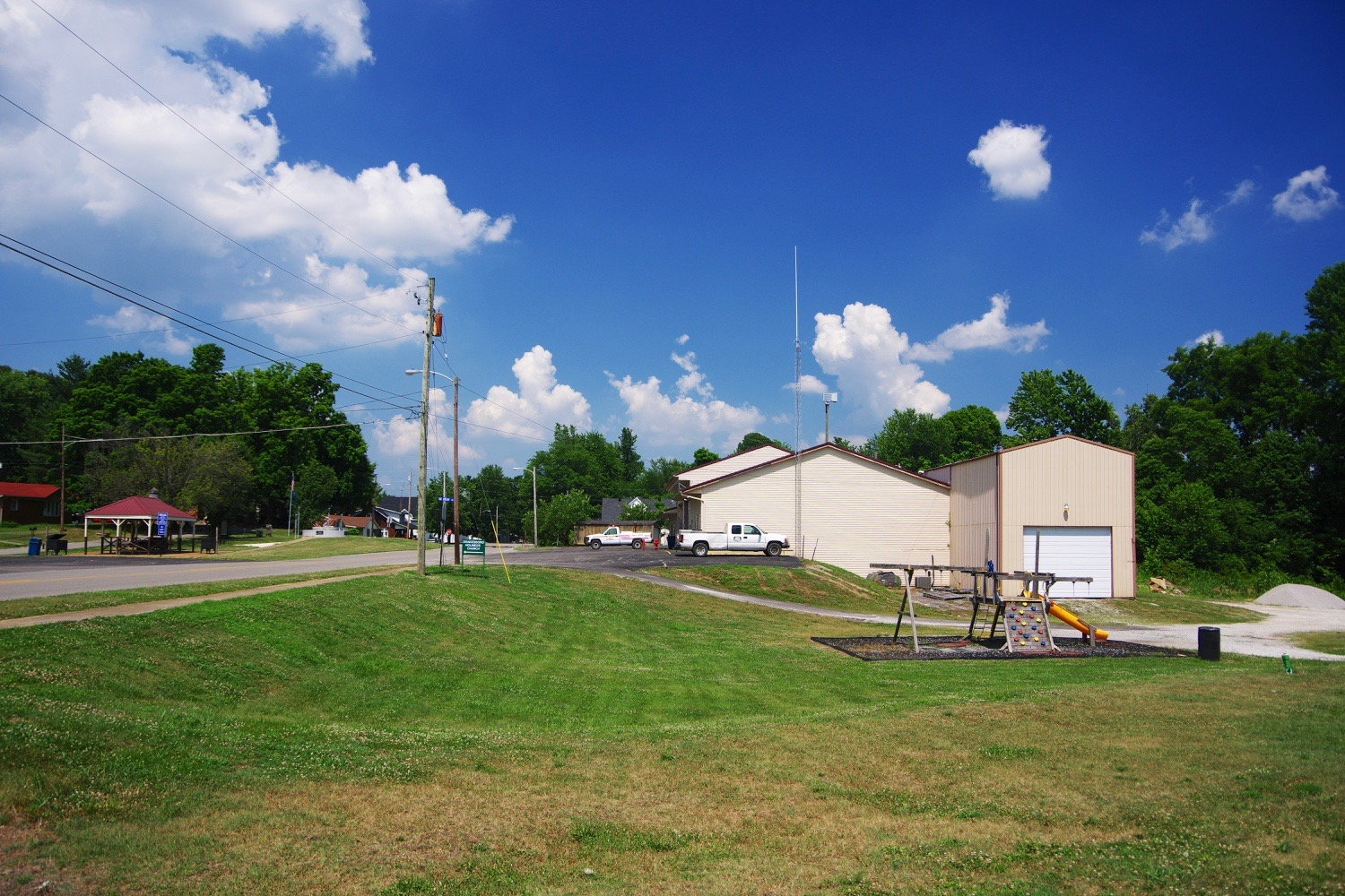 Drakesboro, Kentucky, United States, viewed from Fraizer Street. City Hall is on the right, and Kentucky Route 176 is on the left.